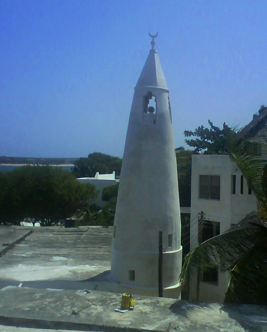 Friday Mosque, Shela, Lamu Island, Kenya